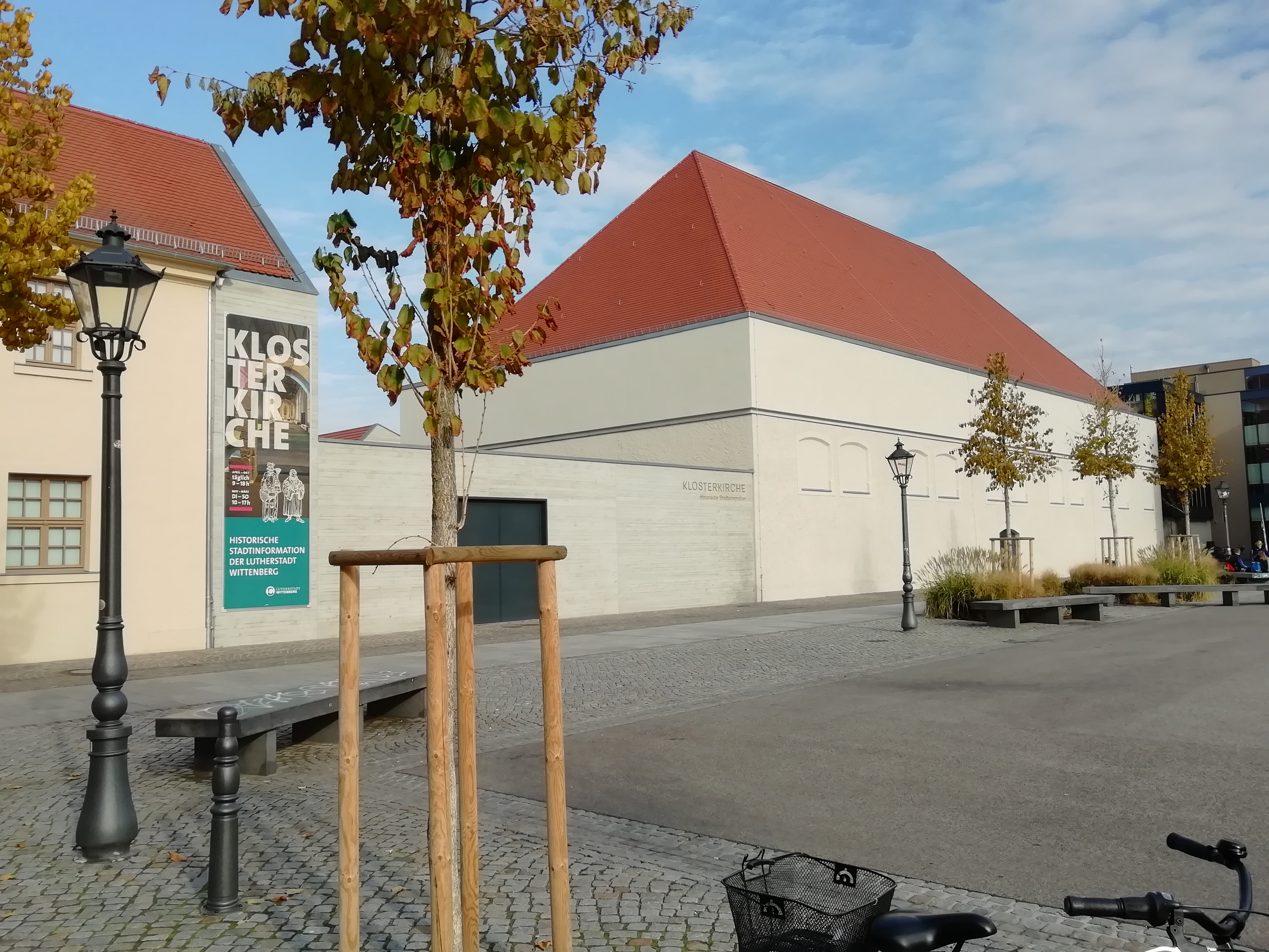 The former monastery church of the Franciscans in Wittenberg - Historic Town Information Center